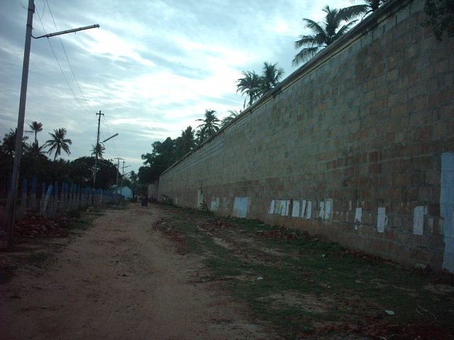 The famous Vibudi Corridor around the Tiruvanaikaval in Trichi, india